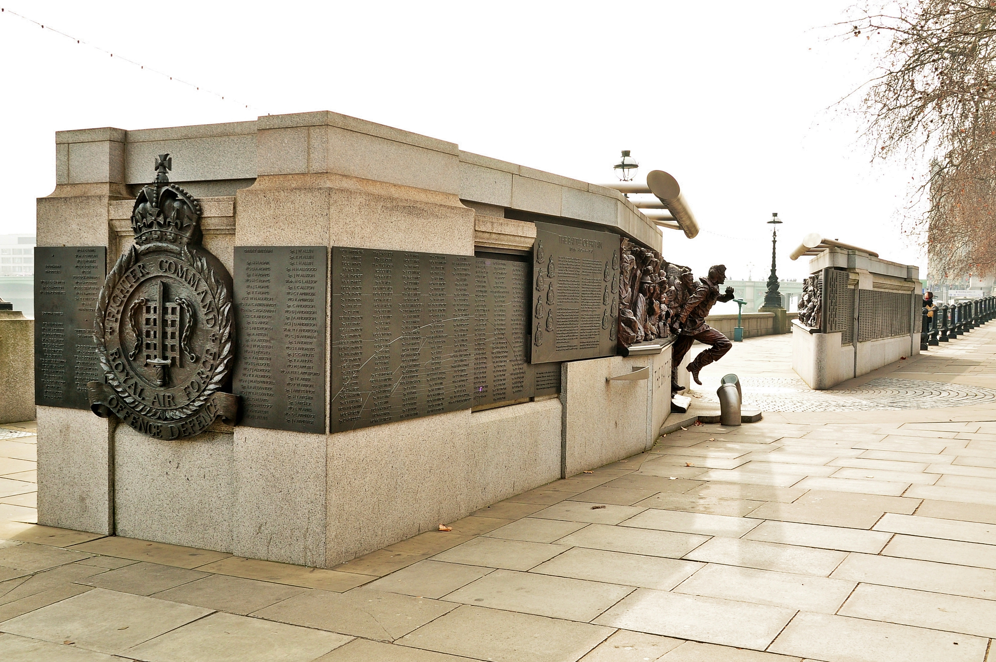 Battle of Britain Monument, London